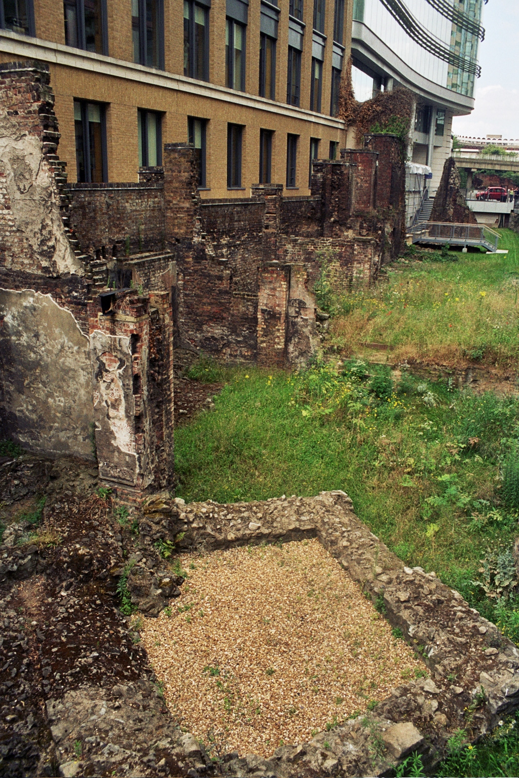 Remains of London Wall.